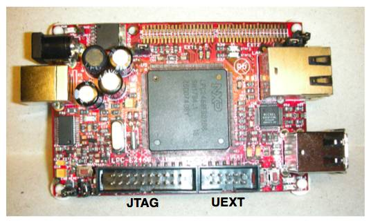 Annotated JTAG and UEXT connectors on an Olimex LPC-E2468 development board